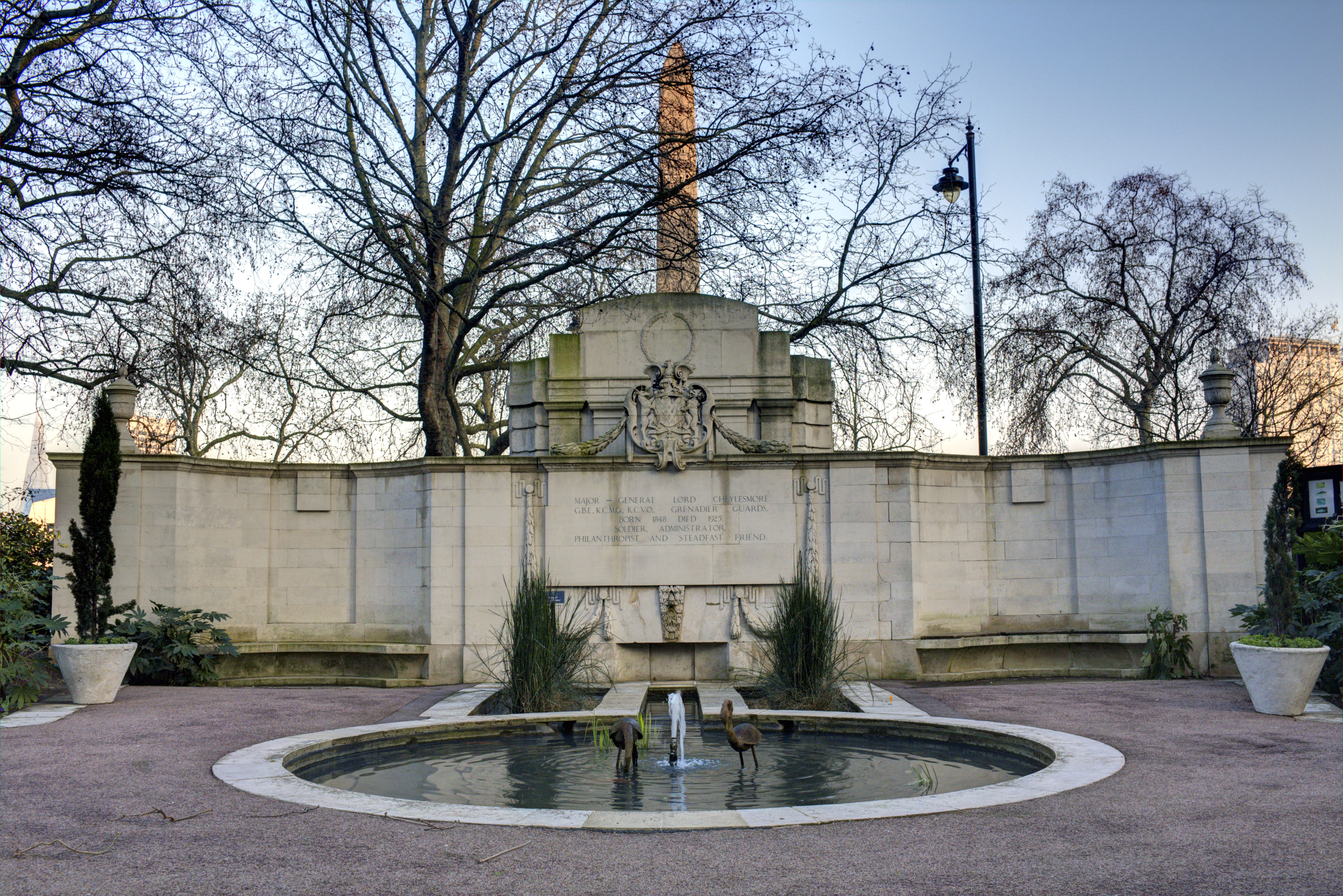 Lord Cheylesmore memorial, Victoria Embankment Gardens, London